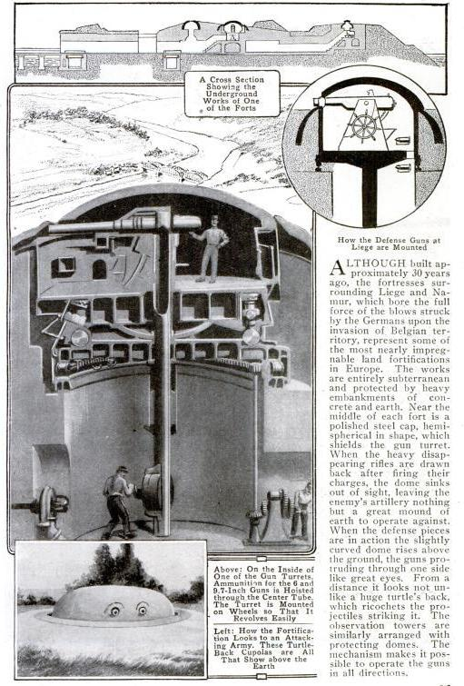 Drawing showing the defense guns at Liege - part of the pre-World War I Belgian defensive fortification system